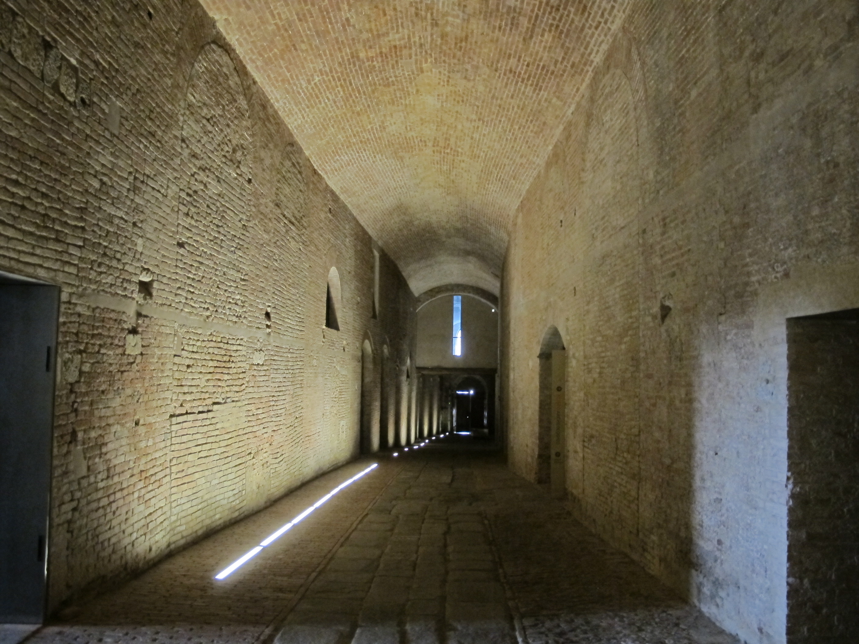 Santa Maria della Scala Hospital (Siena)